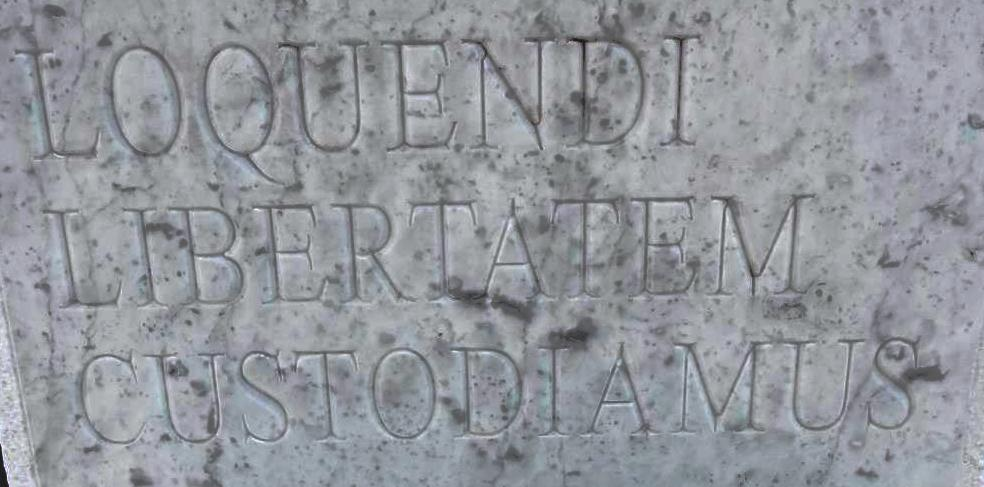 tombe Provesano